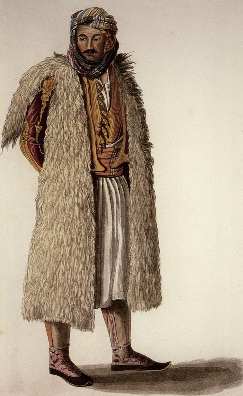 Souliot, coloured copper engraving by J Cartwright